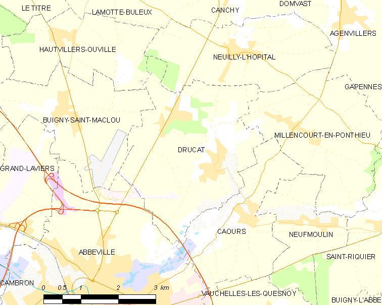 Map of French municipality Drucat